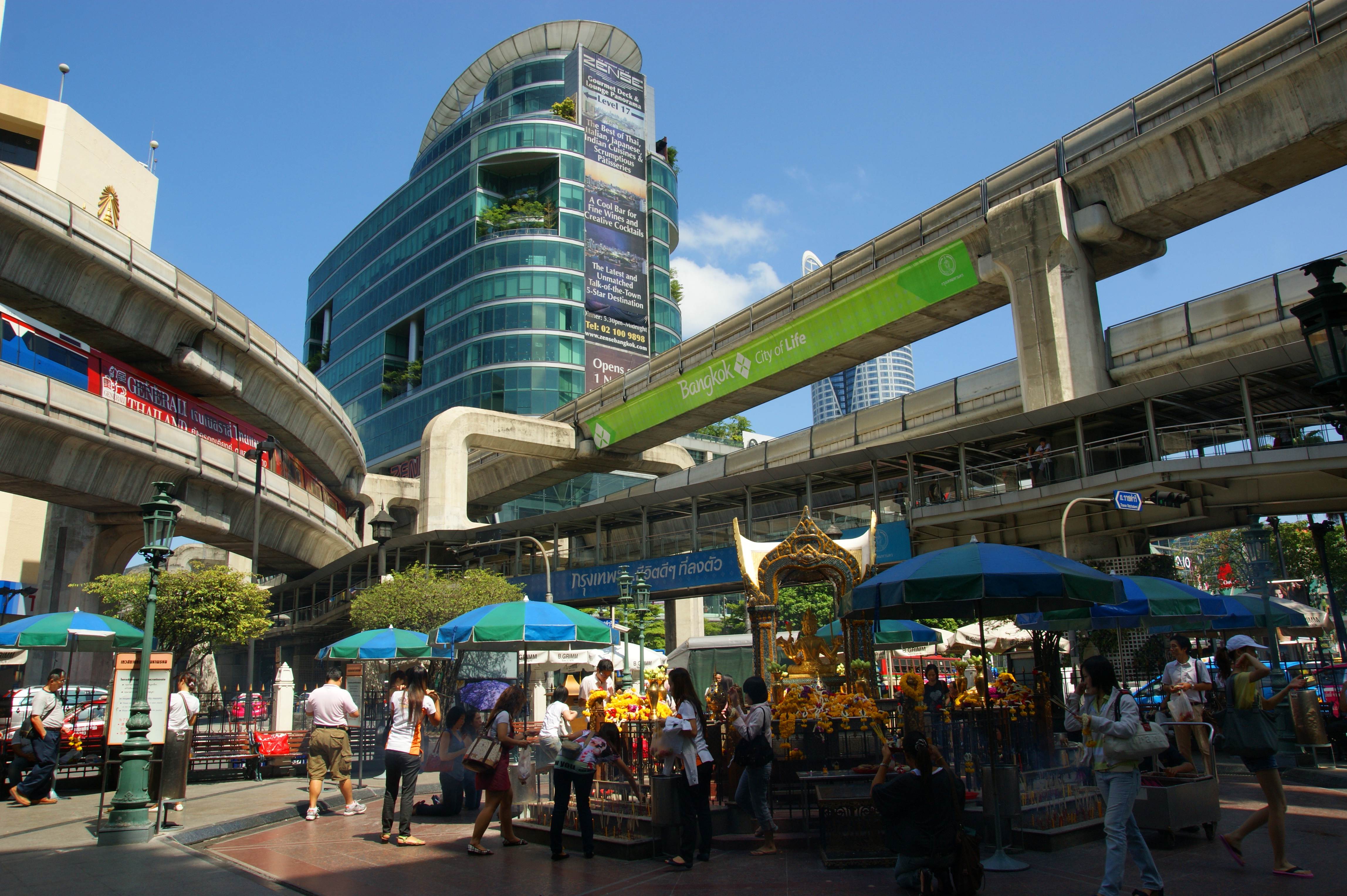 Siam Square, Bangkok